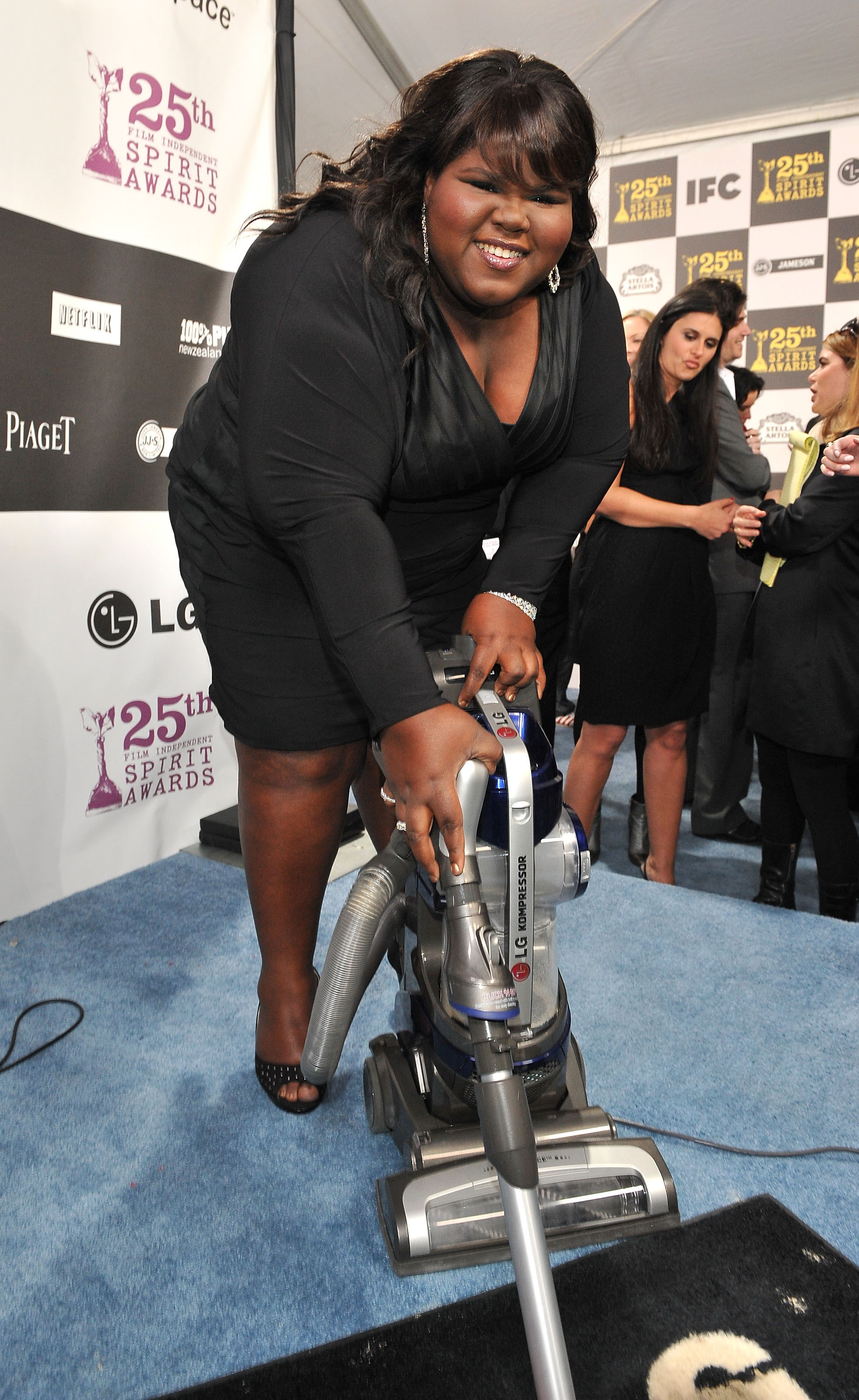 Actress Gabourey Sidibe with the LG Electronics Kompressor Vacuum on The 25th Spirit Awards Blue Carpet held at Nokia Theatre L.A. Live on March 5, 2010 in Los Angeles, California. Photo by George Pimentel/WireImage.com.